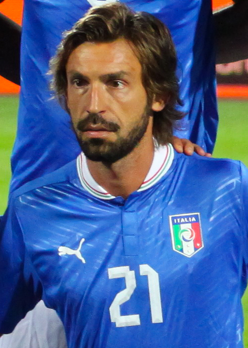 Andrea Pirlo before the football game with Bulgaria, "Vasil Levski" stadium, Sofia, Bulgaria, September 7, 2012